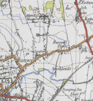 historical map of runwell